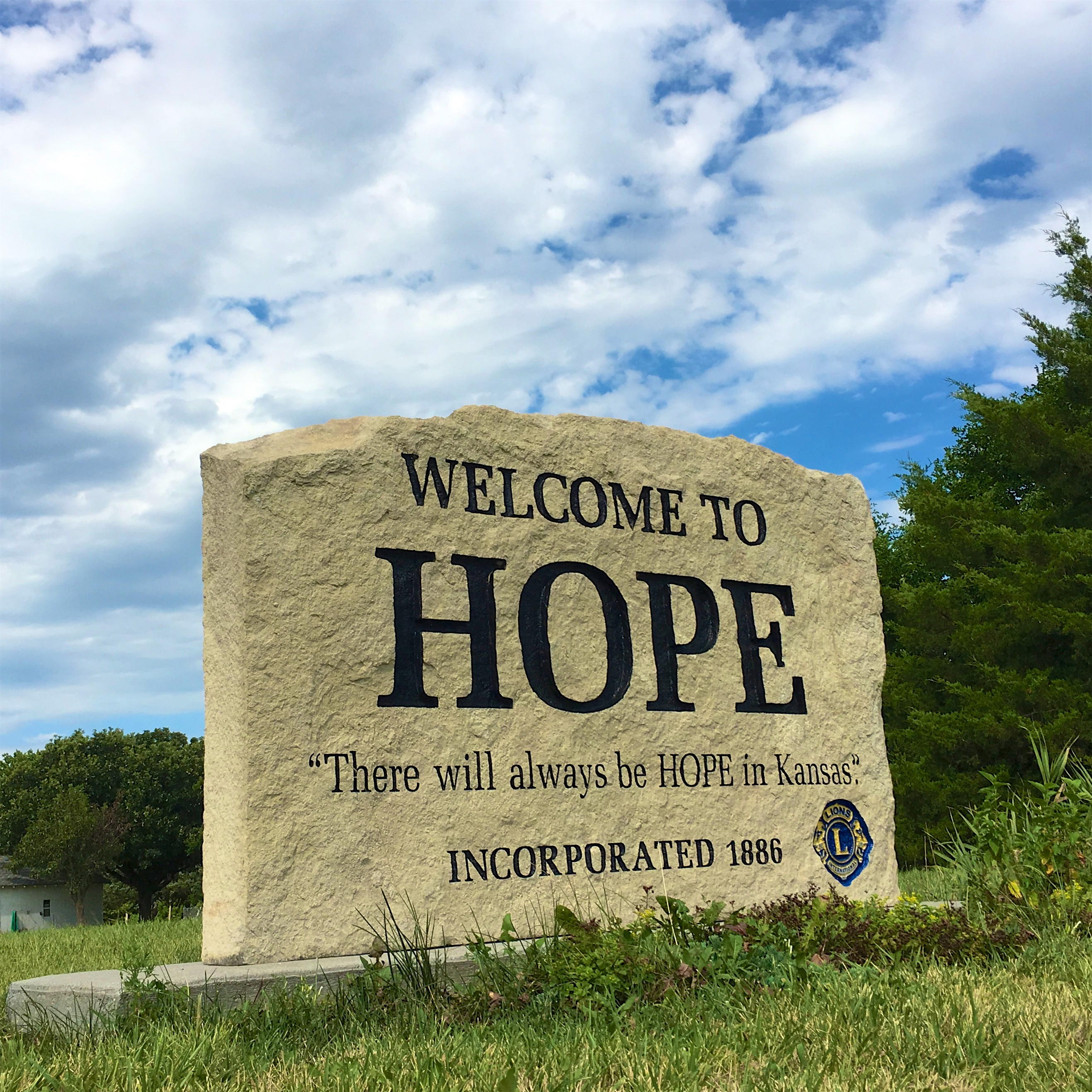 Photo of the welcome banner in limestone, at Hope, Kansas